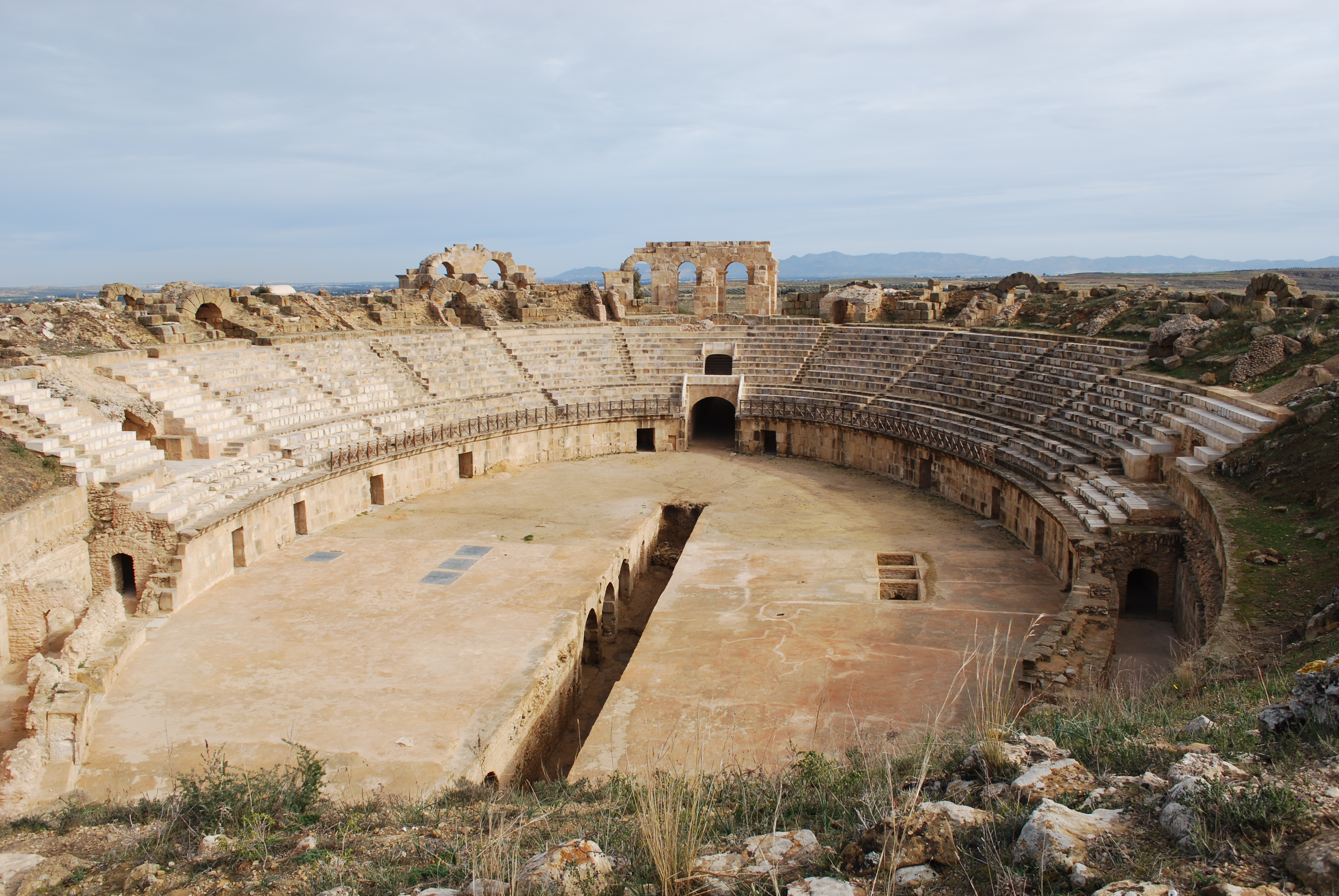 Amphitheatre at Uthina, Tunisia